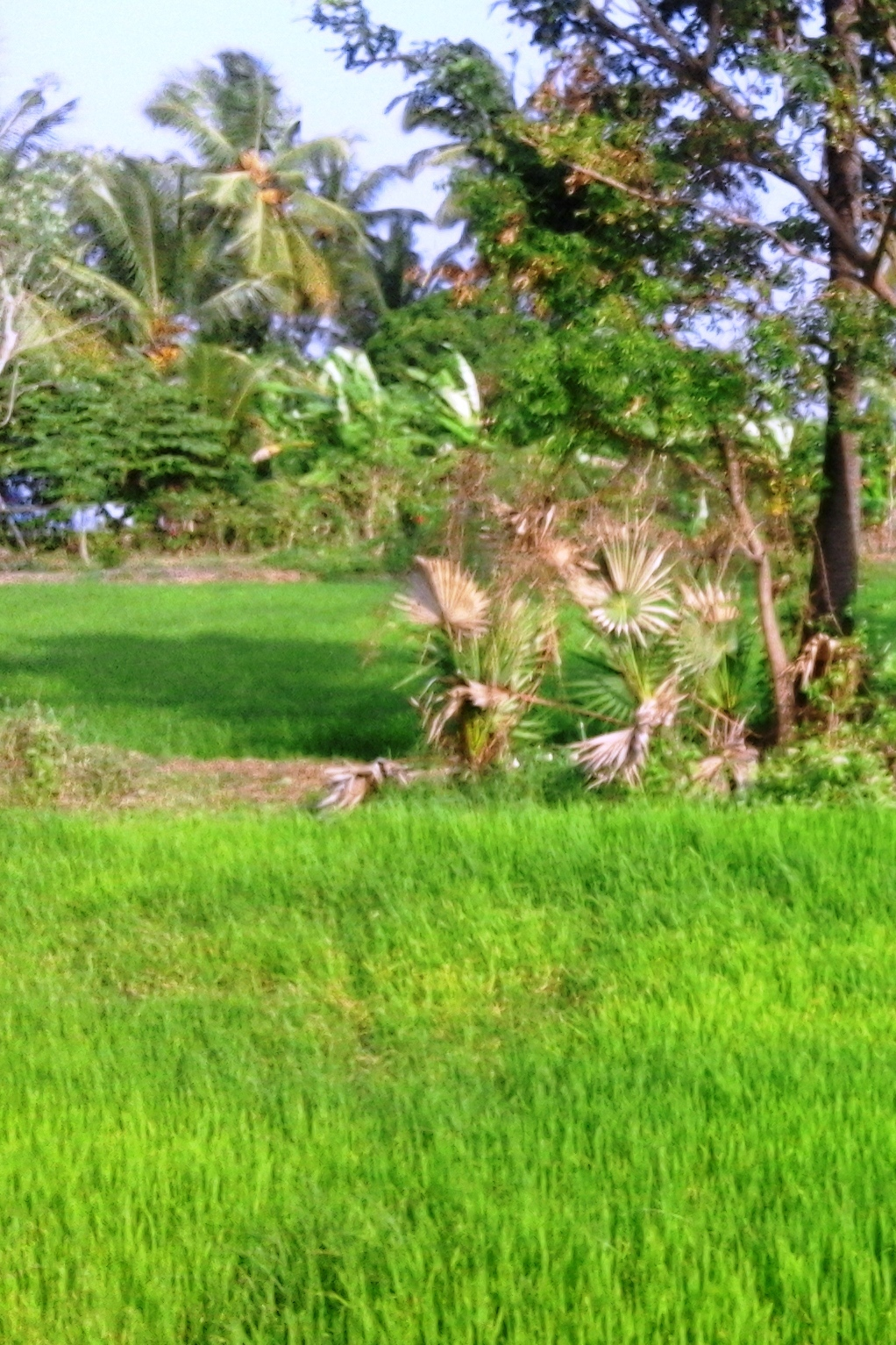 Kollengode, Palakkad District, India.